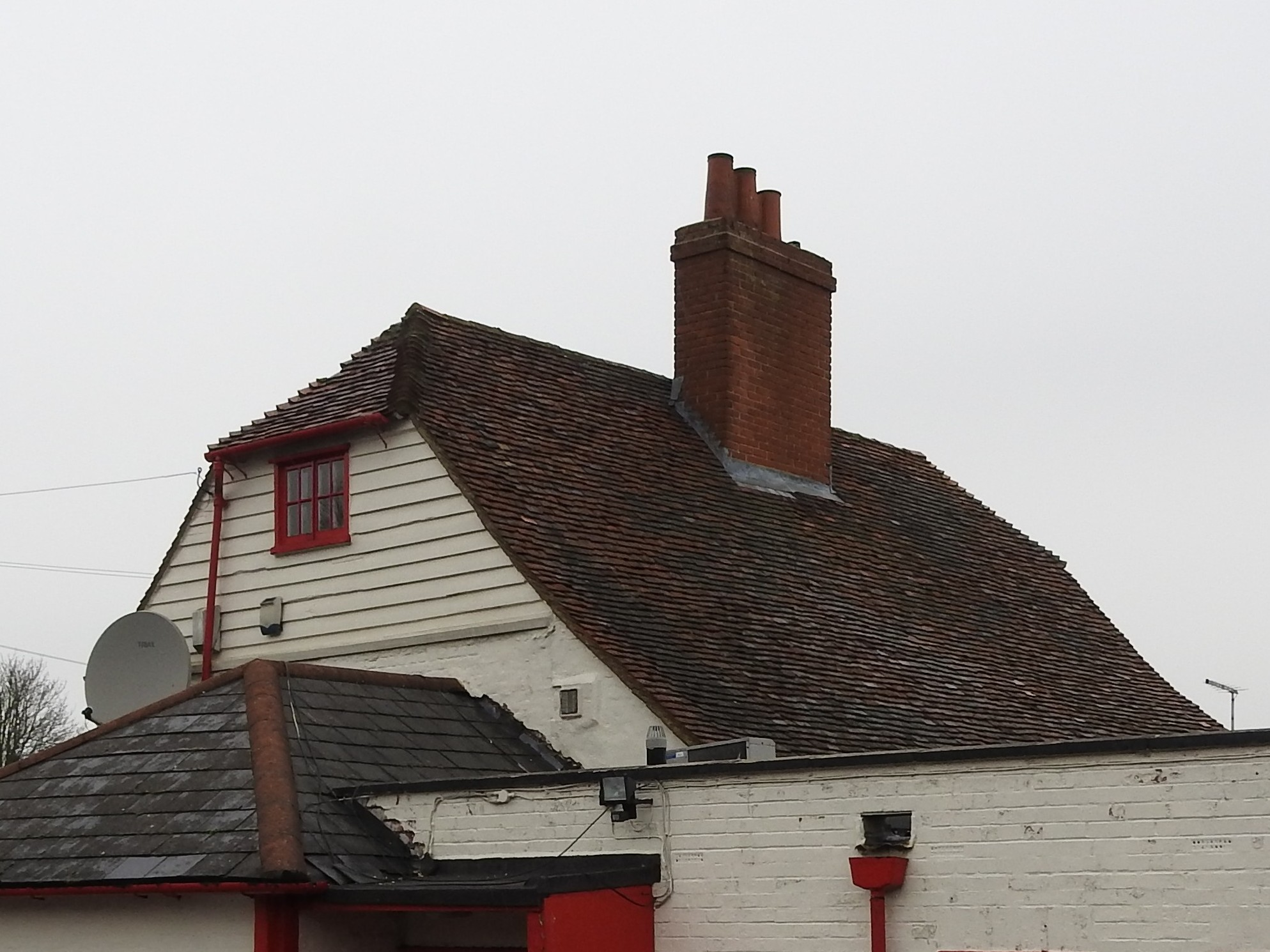 Royal Oak, Frindsbury on Cooling Road waiting for a new tenant.